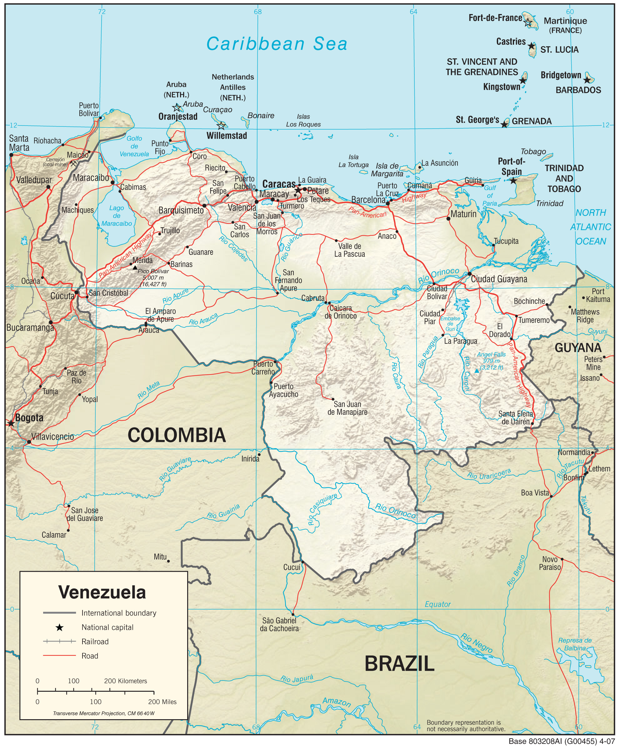 Topographic map of Venezuela (shaded relief), 2007.